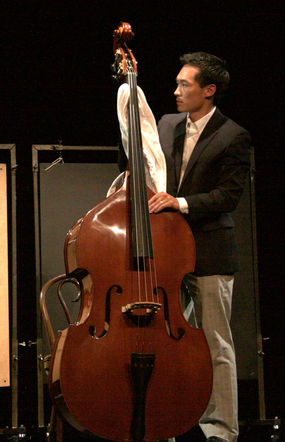 Adam Fong at Something Else, a celebration of the 50th anniversary of the art movement Fluxus.